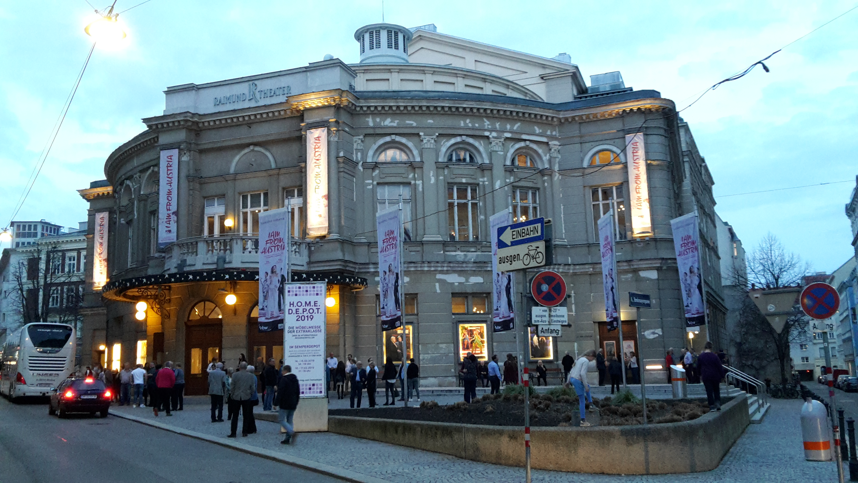 Raimund Theater, Vienna, Austria